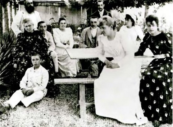 The Monet and Hoschede families circa 1880 date QS:P,+1880-00-00T00:00:00Z/9,P1480,Q5727902 from left to right: Claude Monet, Alice Monet, Michel Monet, Jean-Pierre Hoschede, Blanche Hoschede, Jean Monet, Jacques Hoschede, Martha Hoschede, Germaine Hoschede, Suzanne Hoschede